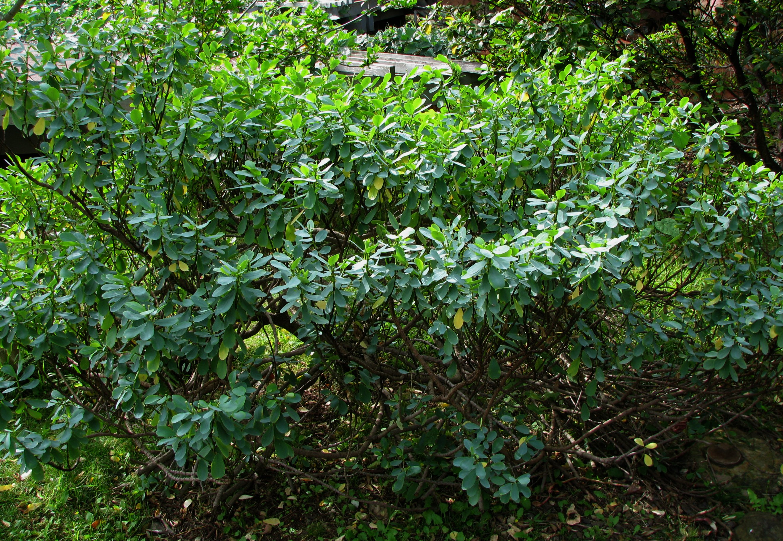 [syn., Chamaesyce celastroides var. celastroides] ʻAkoko, ʻekoko, koko, or kōkōmālei Euphorbiaceae Endemic to the Hawaiian Islands Oʻahu (Cultivated), Nīhoa form